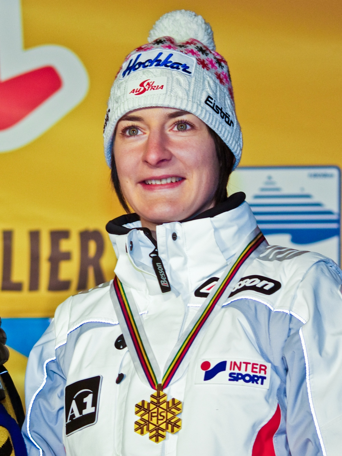 Austrian alpine skier Kathrin Zettel won the gold medal in the super combined at the Alpine World Ski Championships 2009 in Val-d’Isère. On 15 February she was received in her home town Göstling an der Ybbs by over 1000 fans and representatives of politics and sport.